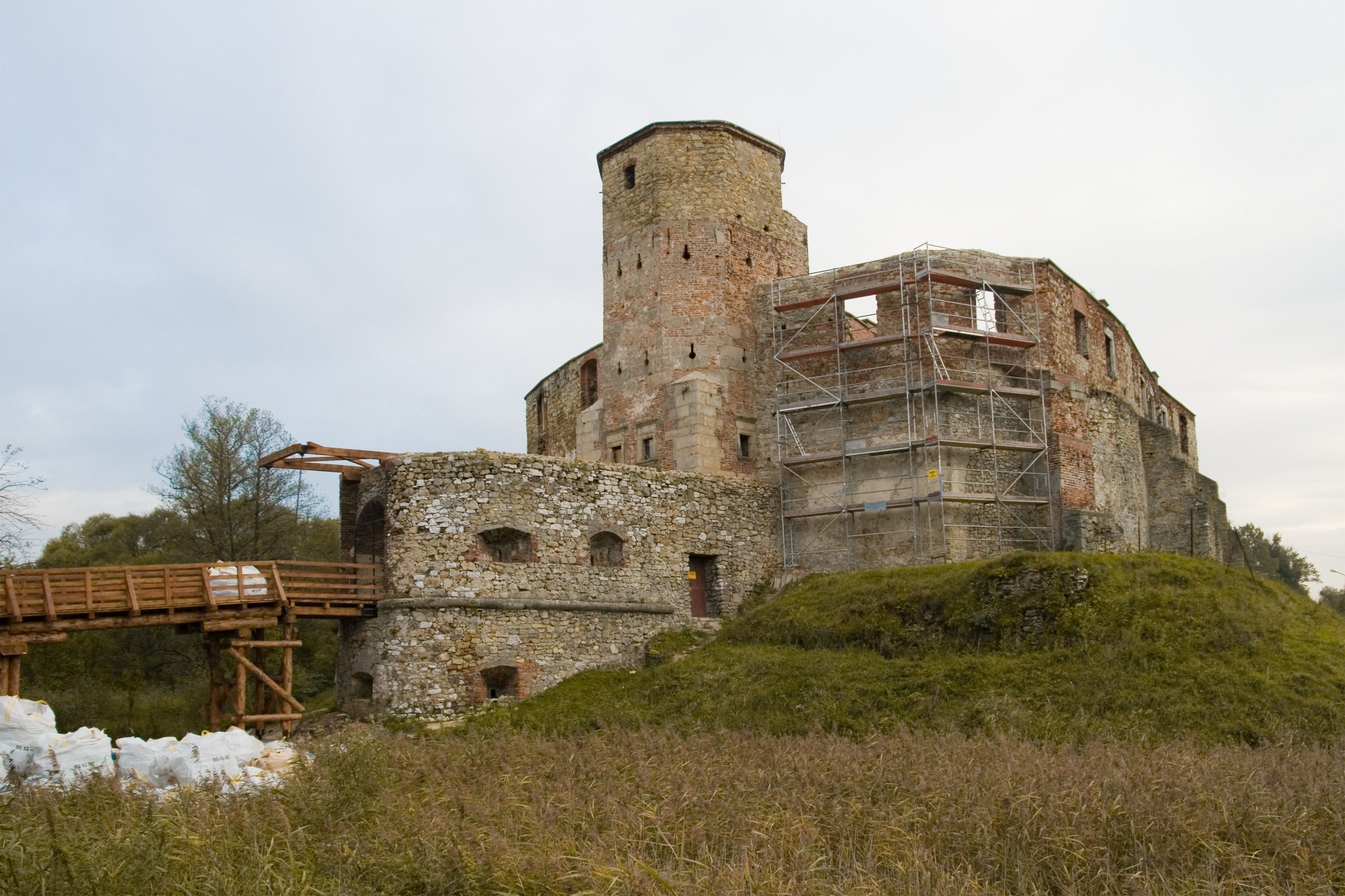 Castle in Siewierz (Poland).